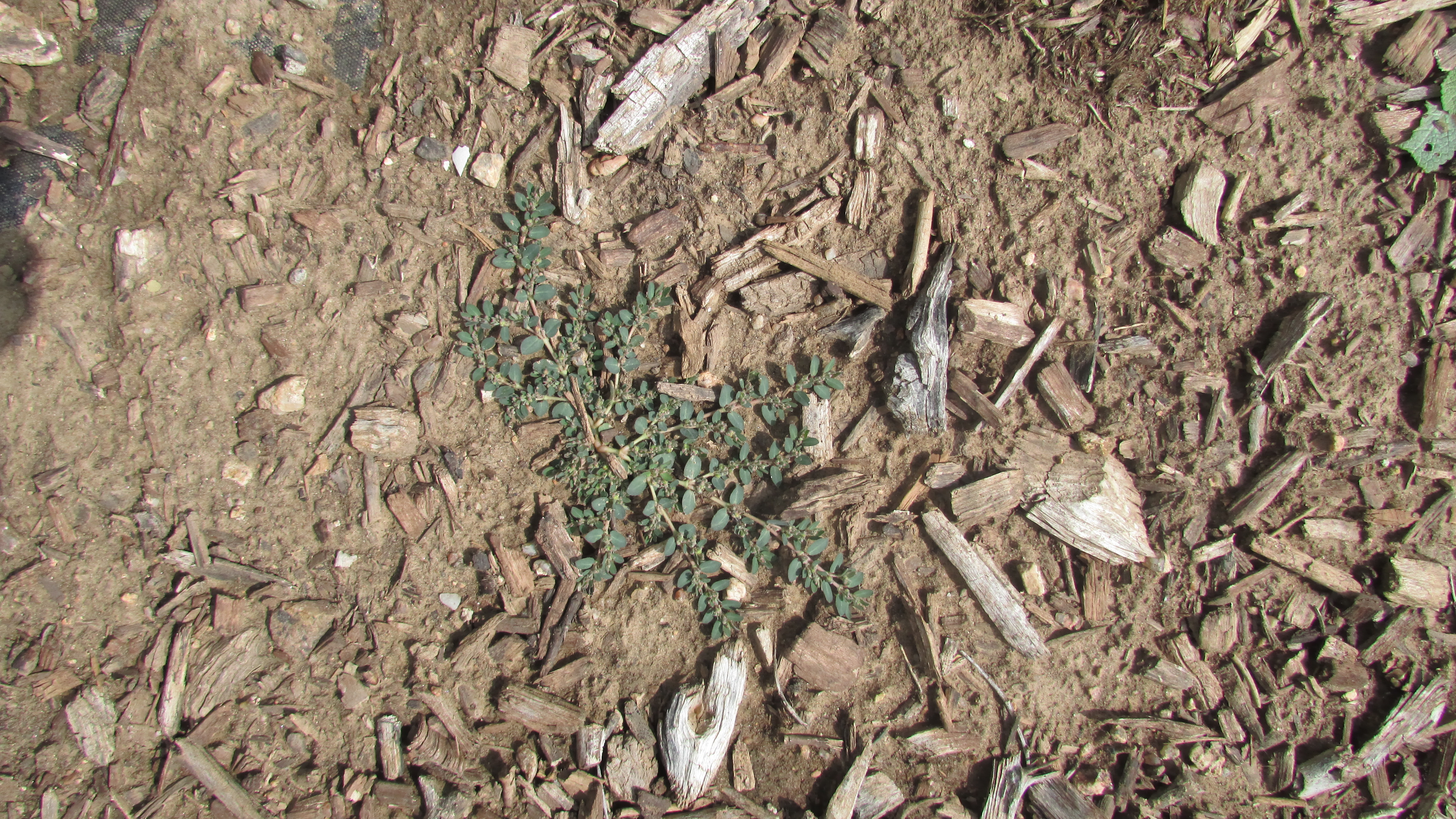 Prostrate spurge invading disturbed soil in a garden